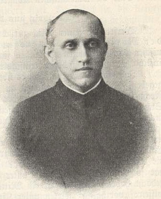 Karl Maria von Andlau (1865-1935), Jesuit aus dem Elsass, in Österreich wirkend